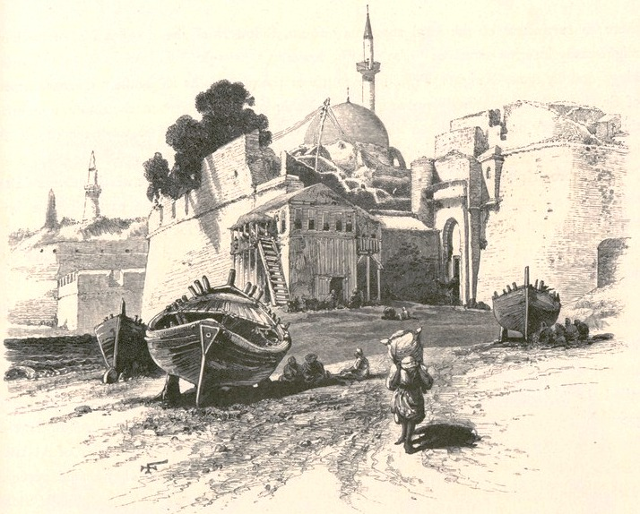 Gate of 'Akka (St. Jean d'Acre). It is the only entrance to the city and is situated near the south end of the eastern land wall, close to the head of the shallow harbor.